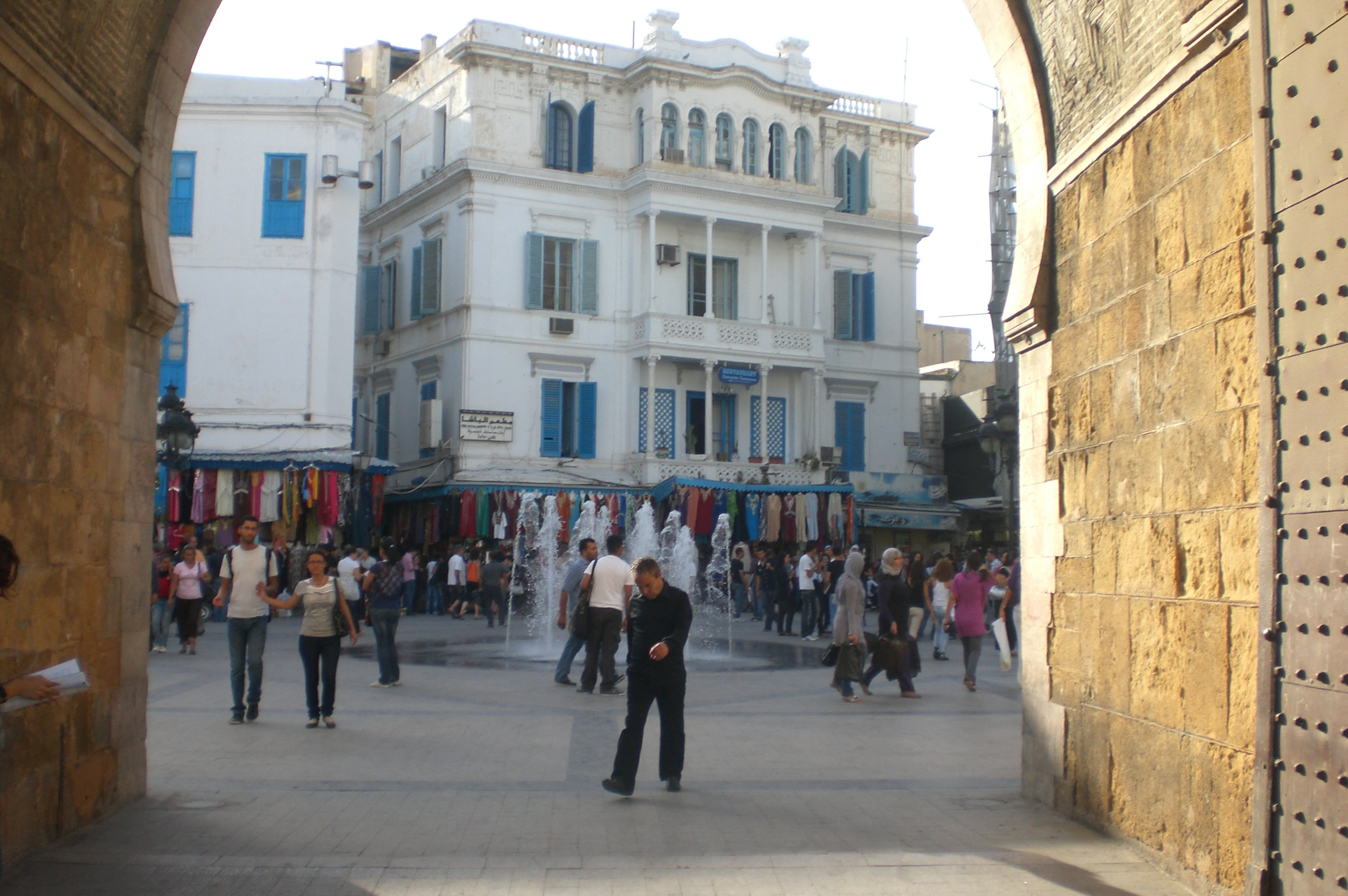 Place de la Victoire in Tunis